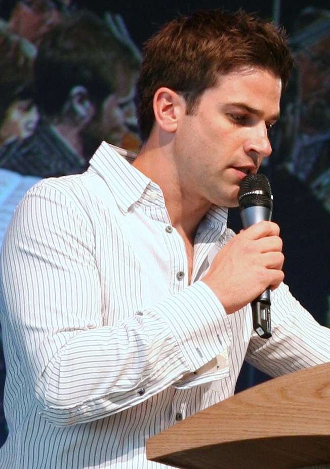 Welsh television presenter Gethin Jones (born 12 February 1978) narrating Prokofiev's Peter and the Wolf at the Guardian Hay Festival in Hay-on-Wye, Wales, UK.